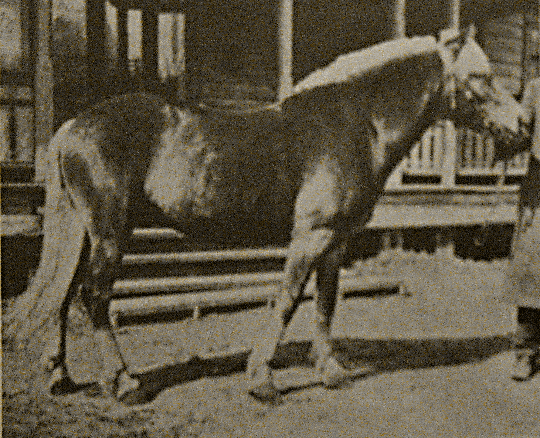 A flaxen-maned chestnut Finnhorse, 141 cm, from Central Finland, in 1910